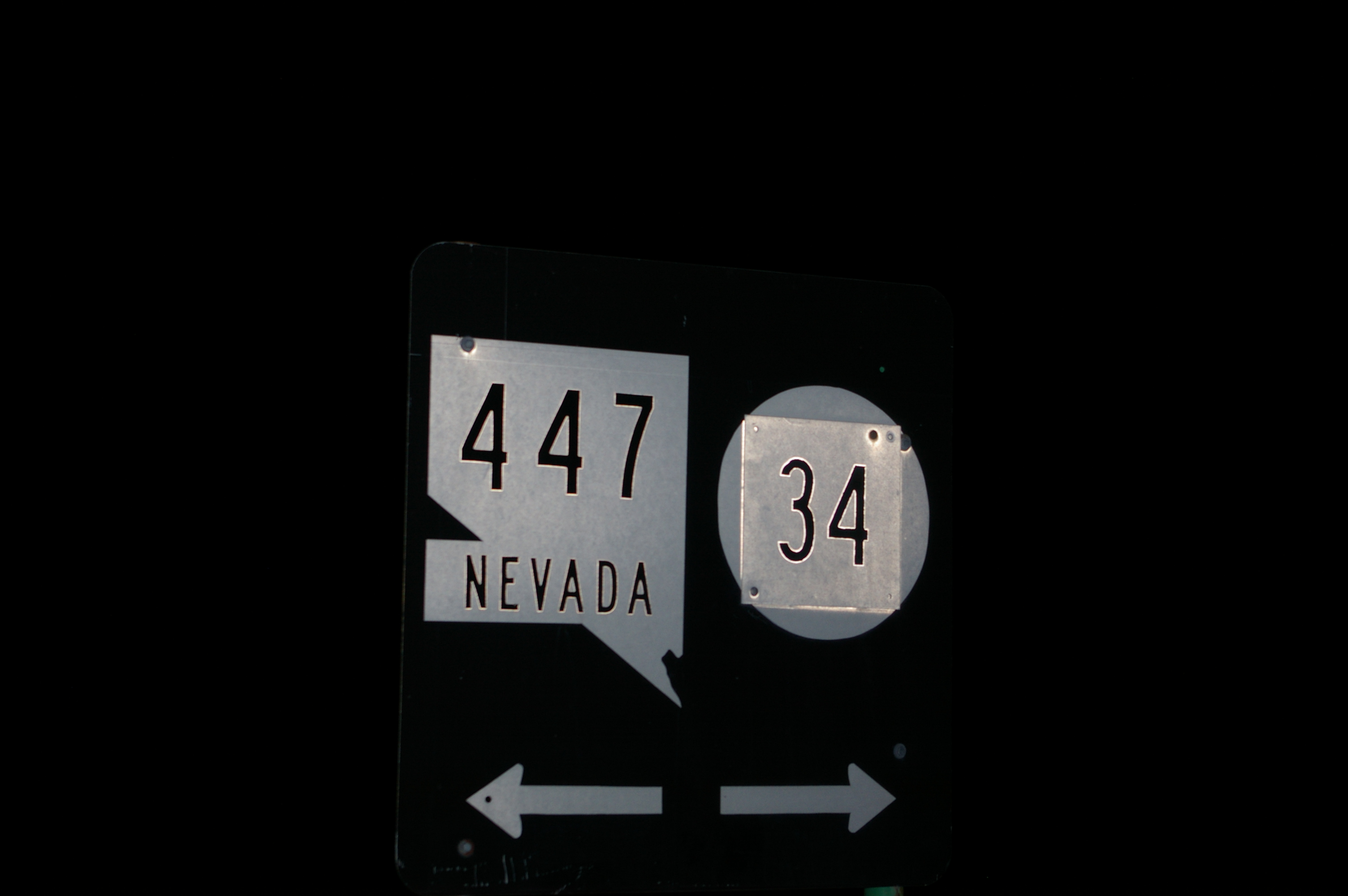 Junction of Washoe County Routes 34 and 447, errantly signed as Nevada State Route 447 and Nevada State Route 34